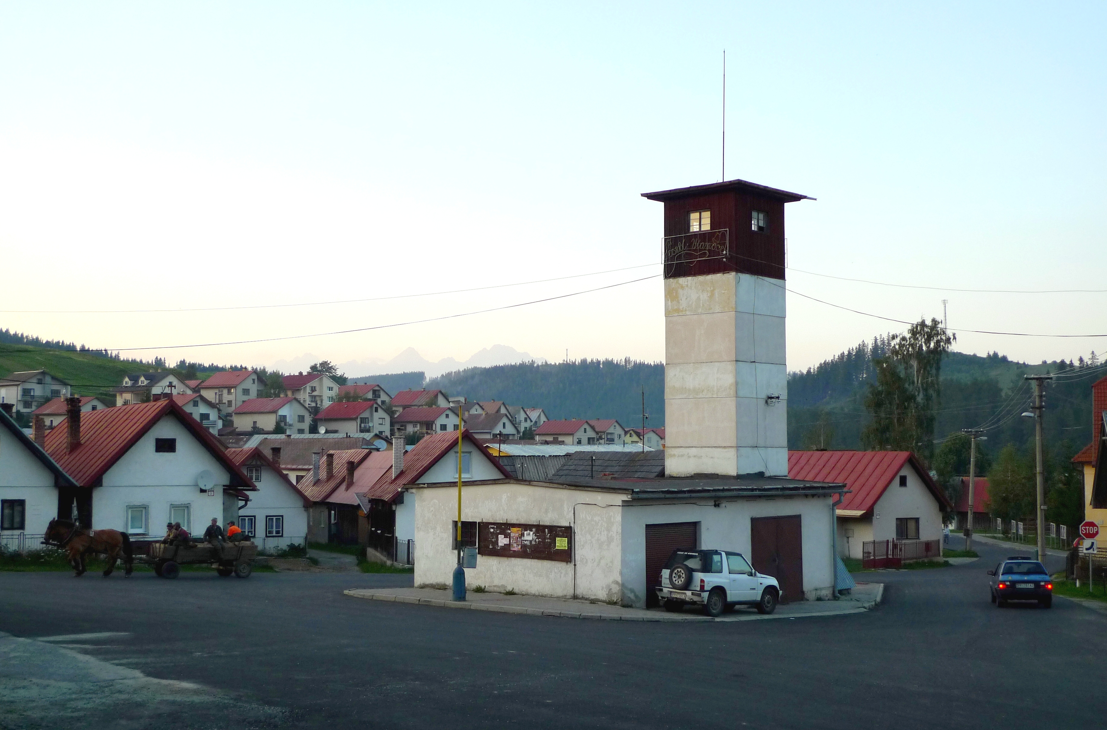 Liptovská Teplička in Slovakia Česky: Náves v Liptovské Tepličce na Slovensku